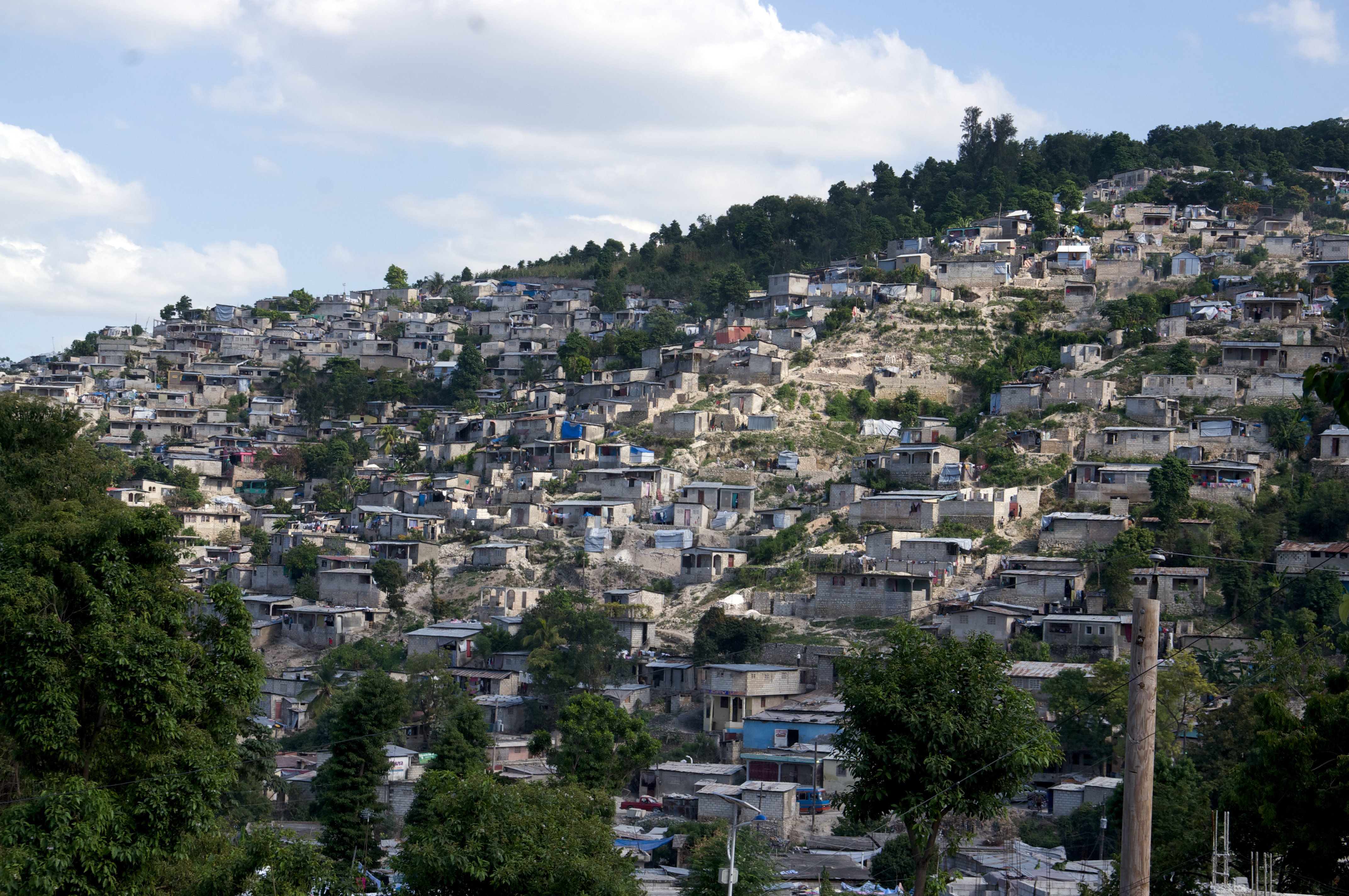 The view across the river of the houses on top of houses up the hills of Carrefour, Haiti.